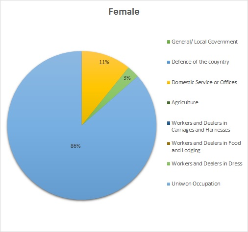 This pie chart shows the occupational structure for Sutton in 1881, showing specifically female percentages